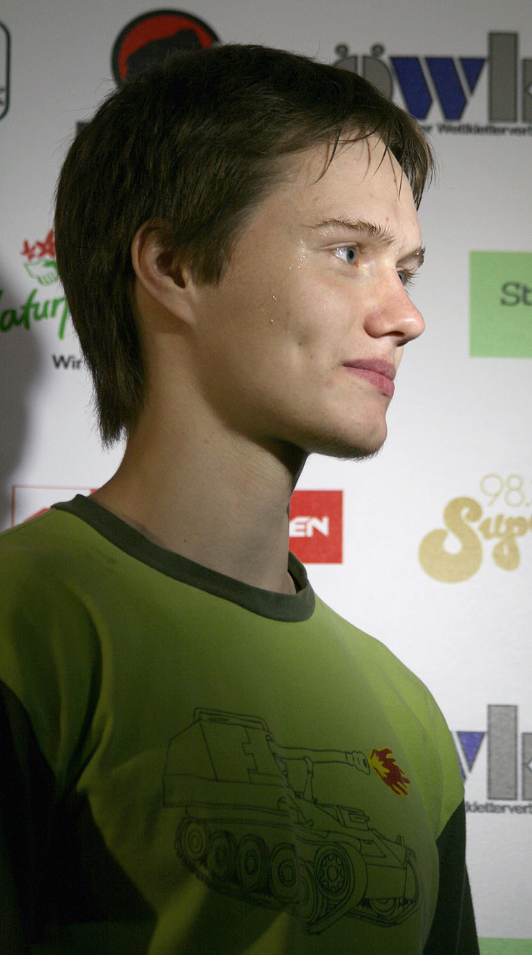 Alexey Rubtsov, 3rd placed at the IFSC Boulder Worldcup Vienna 2010.